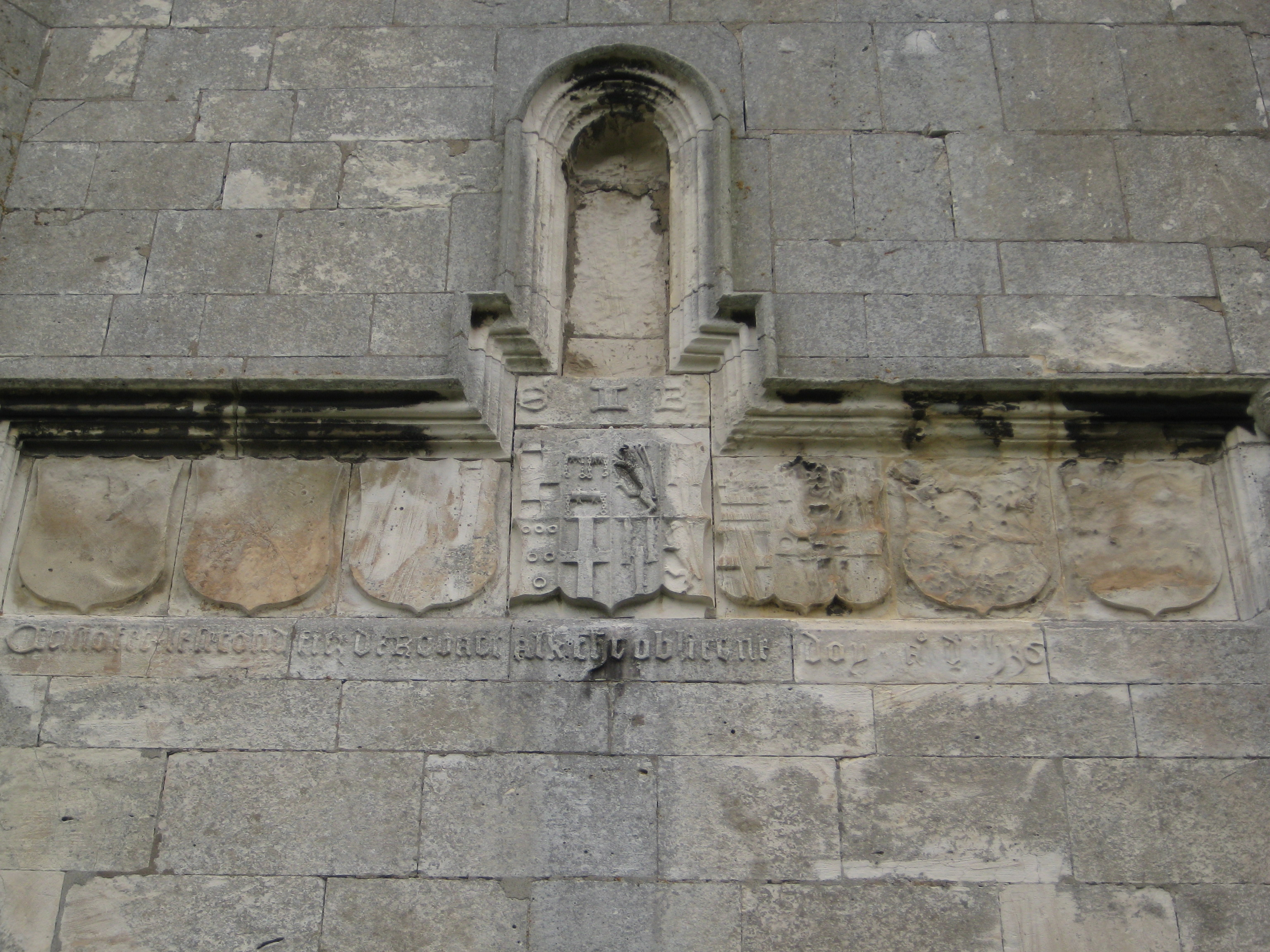 All Saints Church, Aughton, East Riding of Yorkshire, England.- shows carvings on the tower wall of 6 quarterlings inscribed by Sir Christopher Aske - barbara ainscough 2008